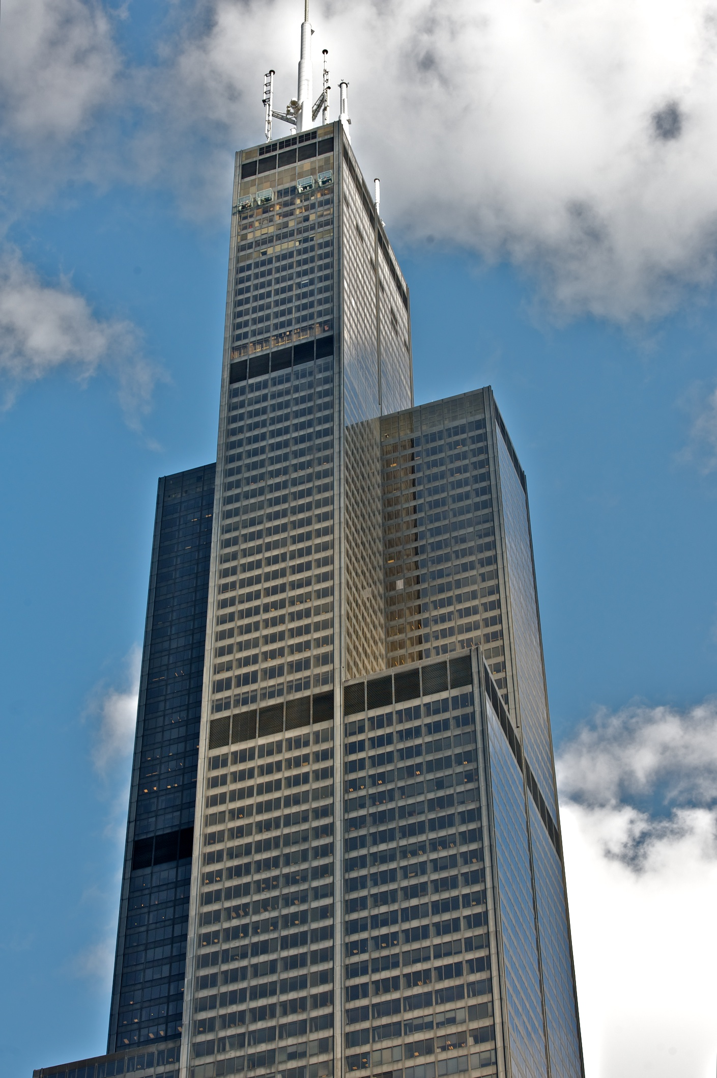 Willis Tower